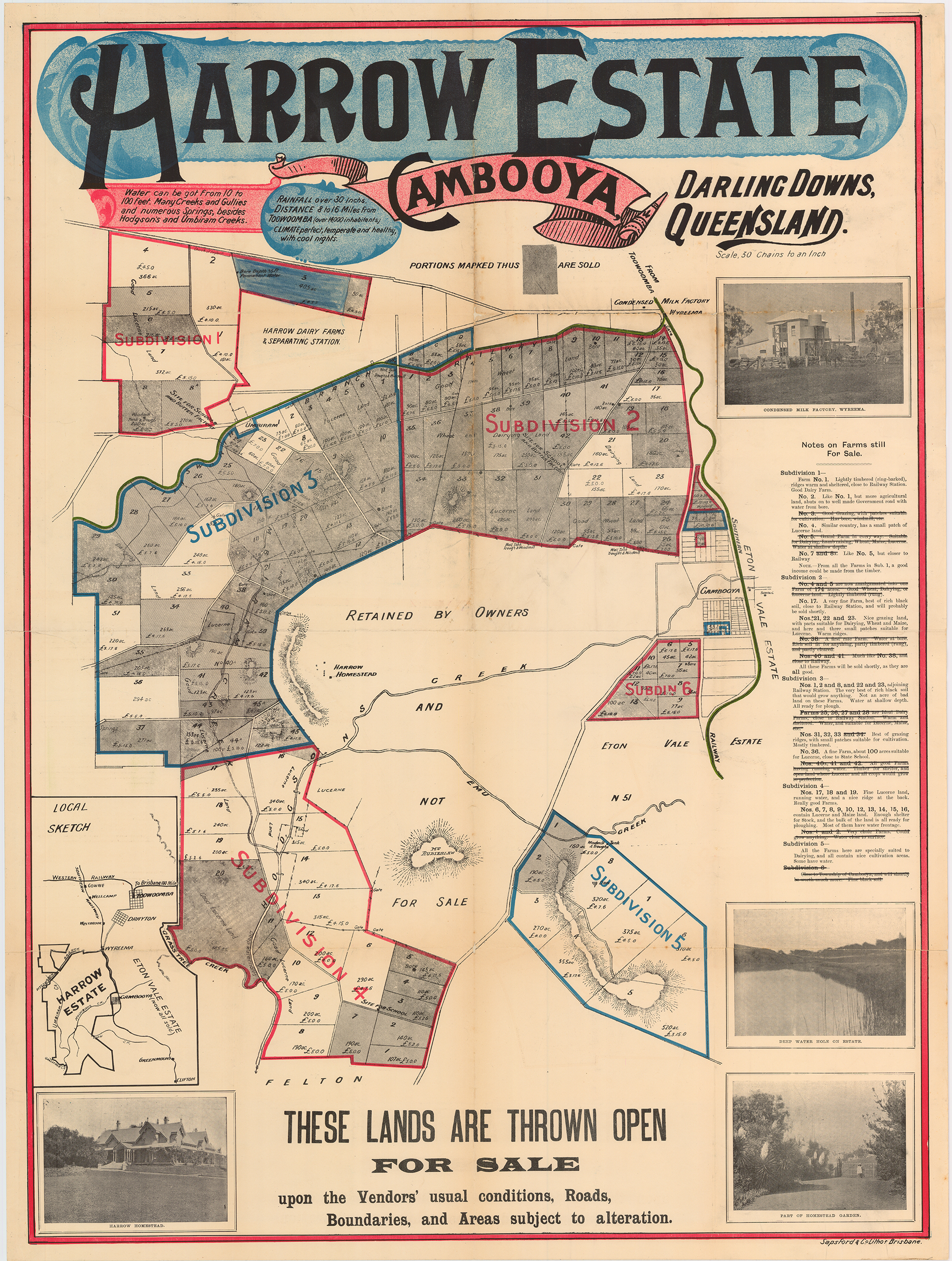 Harrow Estate Sale Poster, near Cambooya, circa 1910